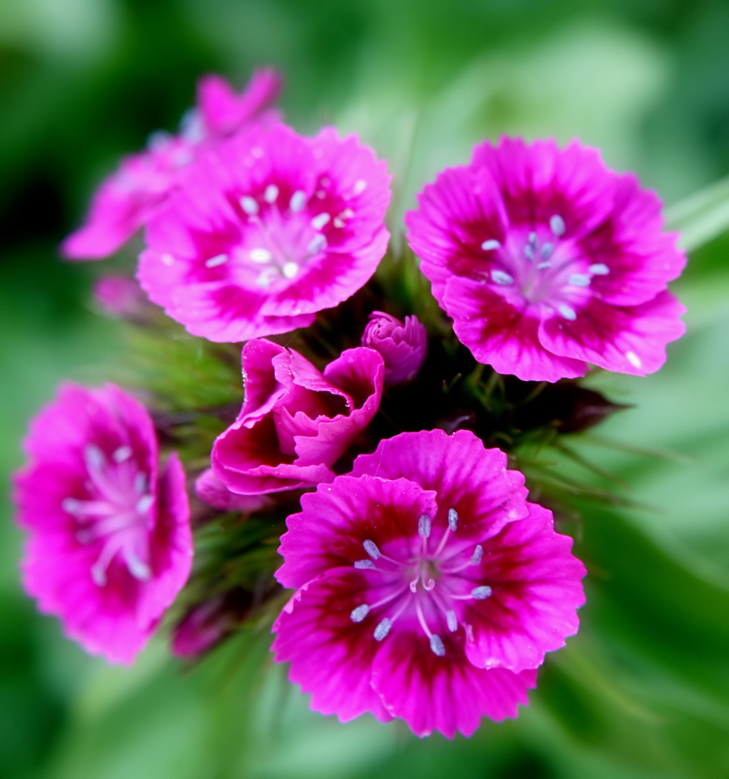 Photo of some pink Sweet William flowers (Dianthus barbatus).